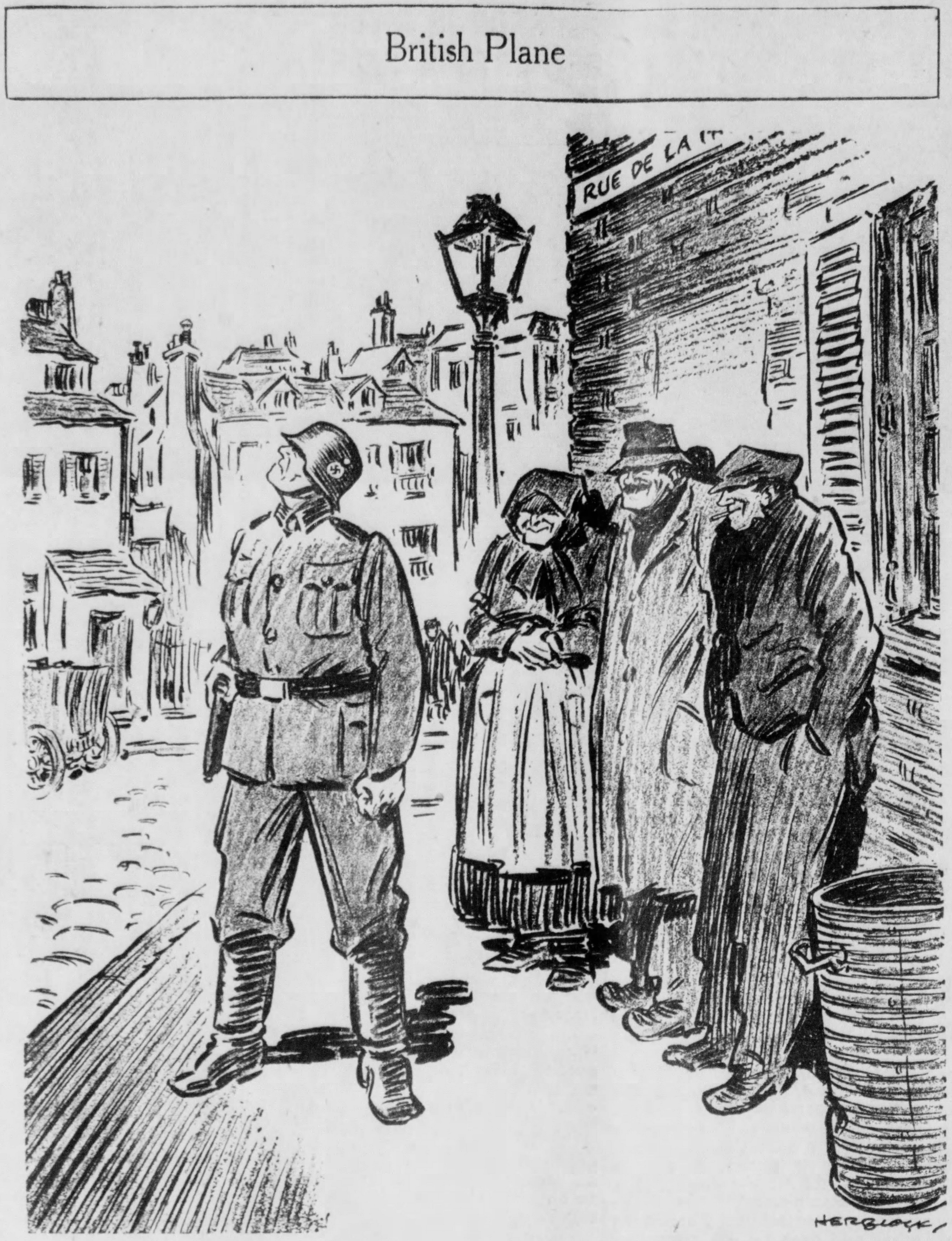 "British Plane", an editorial cartoon commenting on the turning tide of World War II in France in 1941. Winner of the 1942 Pulitzer Prize for Editorial Cartooning.